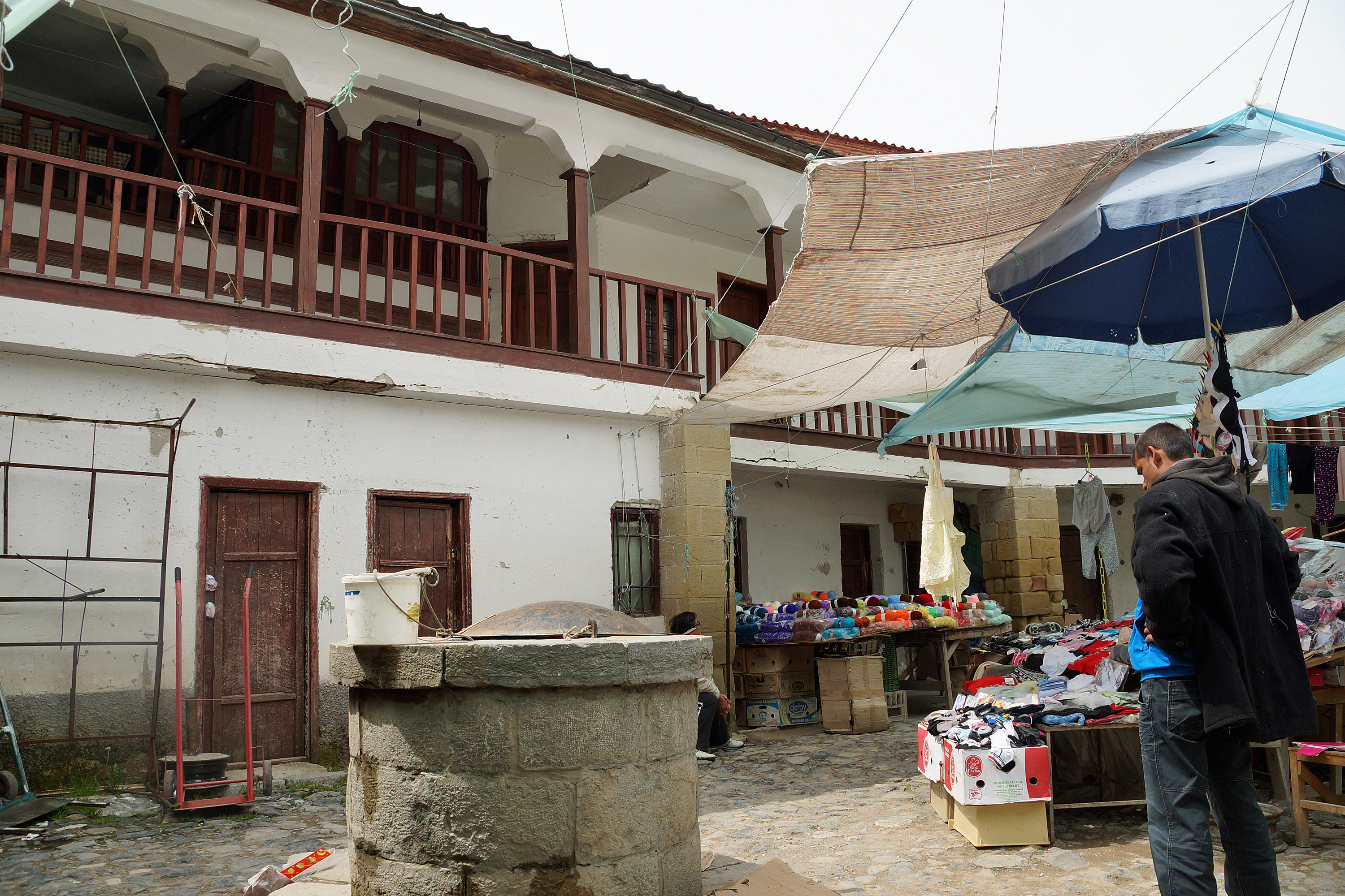 Han i Elbasanit, Ottoman inn in Korça, Albania